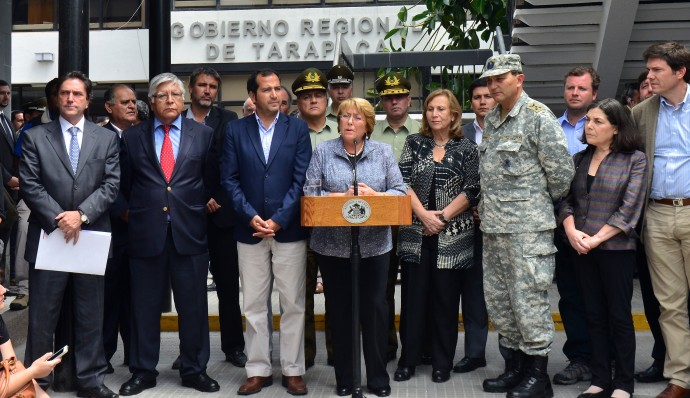 President of Chile Michelle Bachelet at Iquique, the epicentre town of the 2014 Iquique earthquake, on the day after the earthquake.